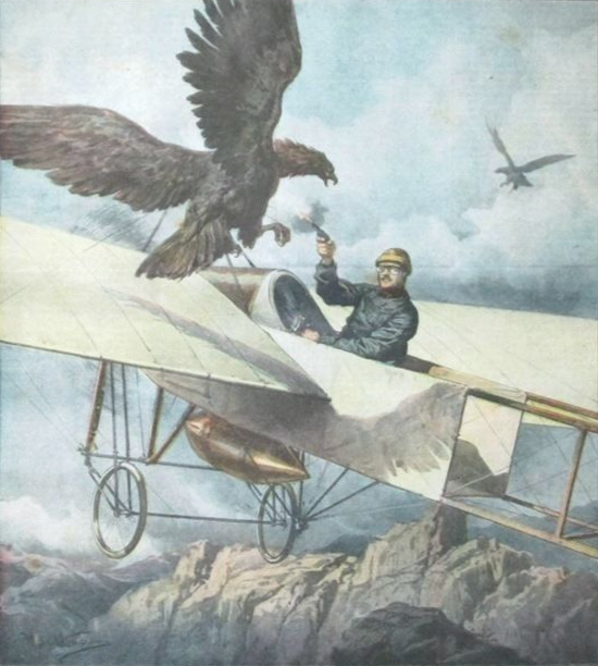 Painting from the cover of La Domenica del Corriere, 4 June 1911, depicting a sensationalised portrayal of Eugène Gilbert's encounter with an eagle during the 1911 Paris to Madrid air race.